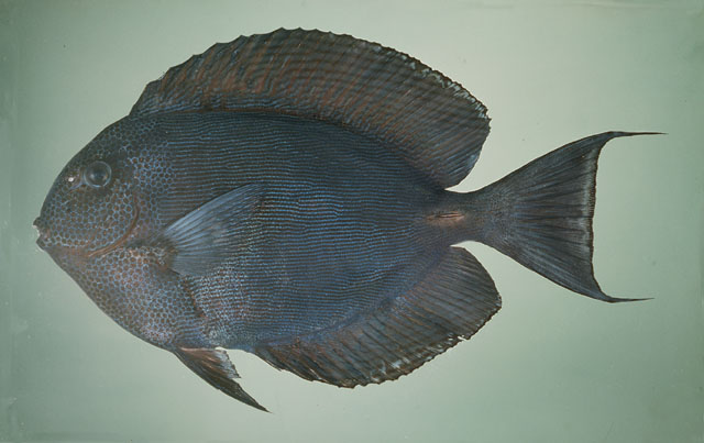 Bluelined surgeon also called Pin-striped surgeon